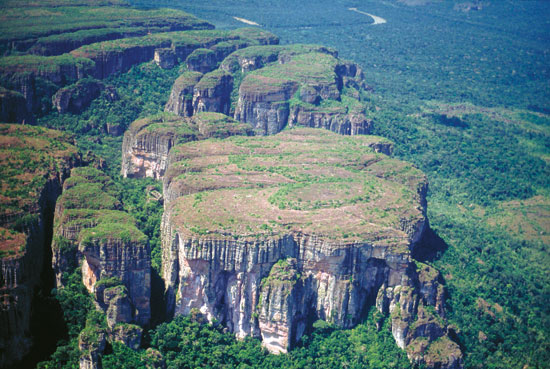 A tepui within the Parque Nacional Natural Chiribiquete